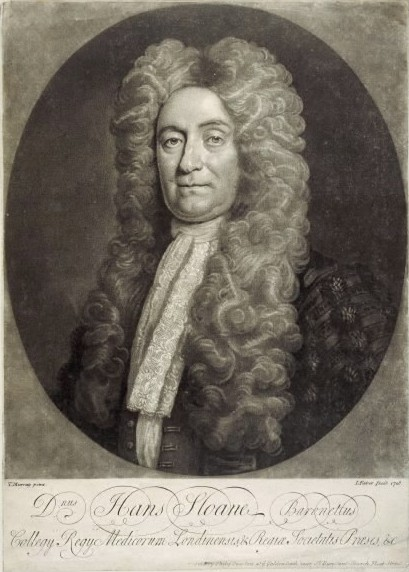 Portrait of Sir Hans Sloane (1660-1753)